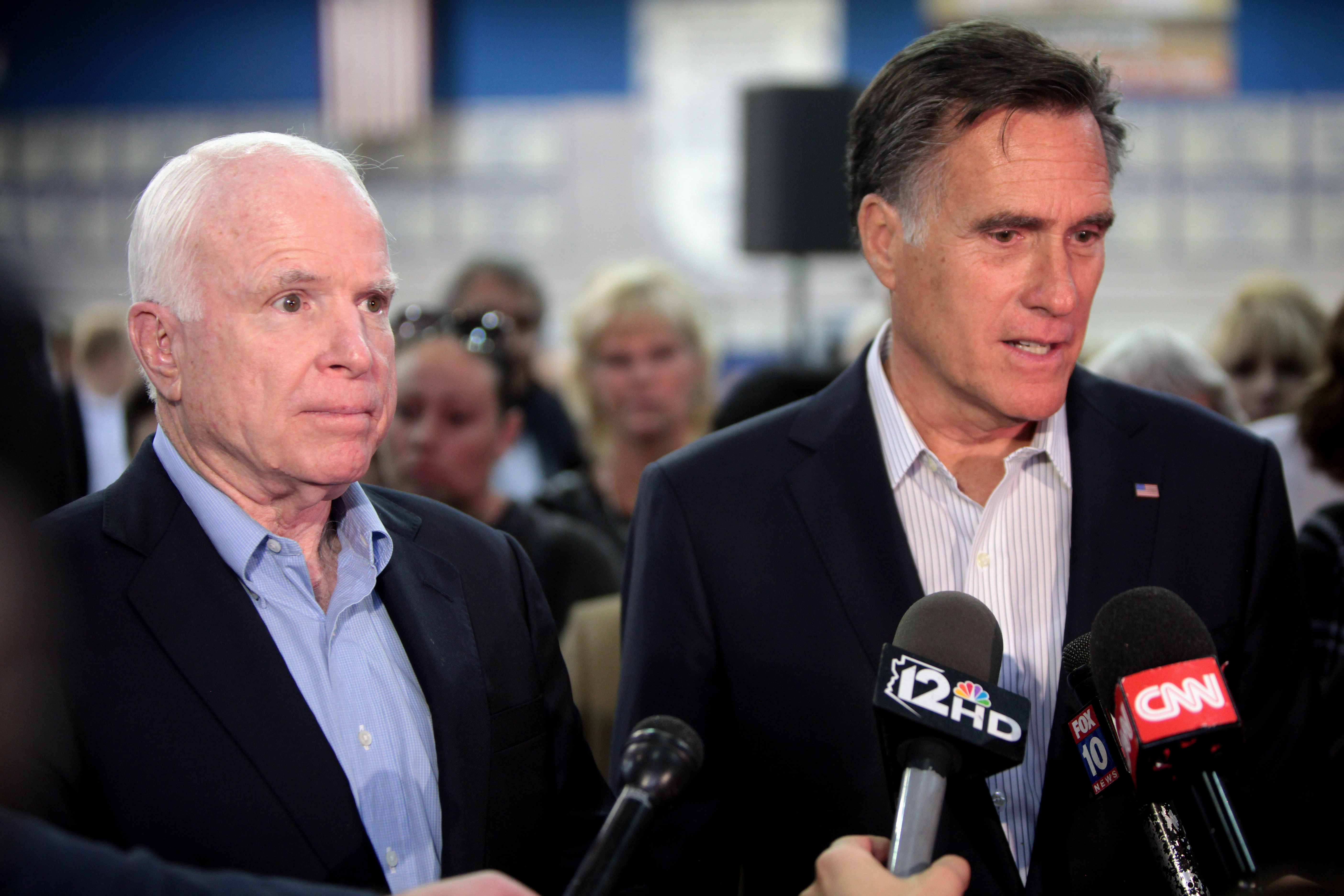 U.S. Senator John McCain and former Governor Mitt Romney speaking with the media at a campaign rally at Dobson High School in Mesa, Arizona.